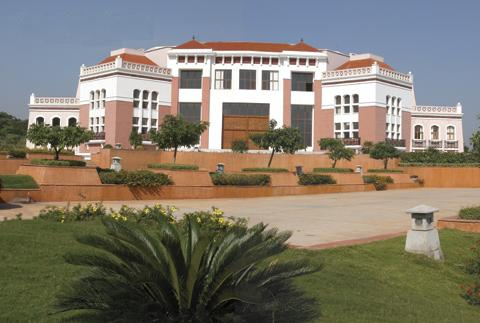 I have photographed this one.